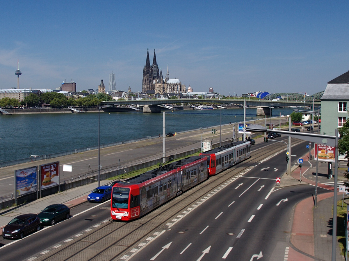 Cologne Stadtbahn train on the shores of the river Rhine in front of the Cologne skyline